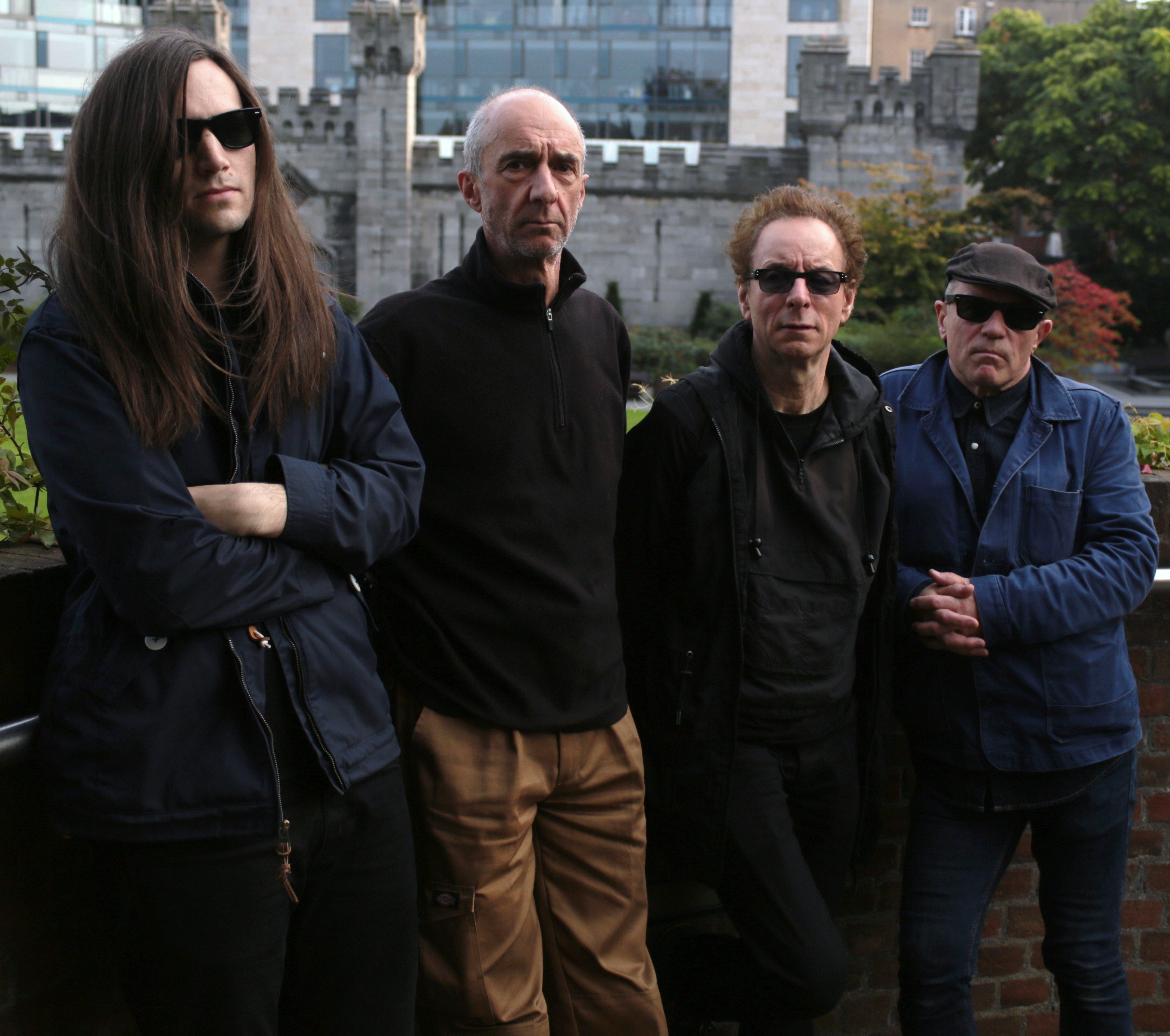 The band Wire, sept 2013. Photo by Fergus Kelly.